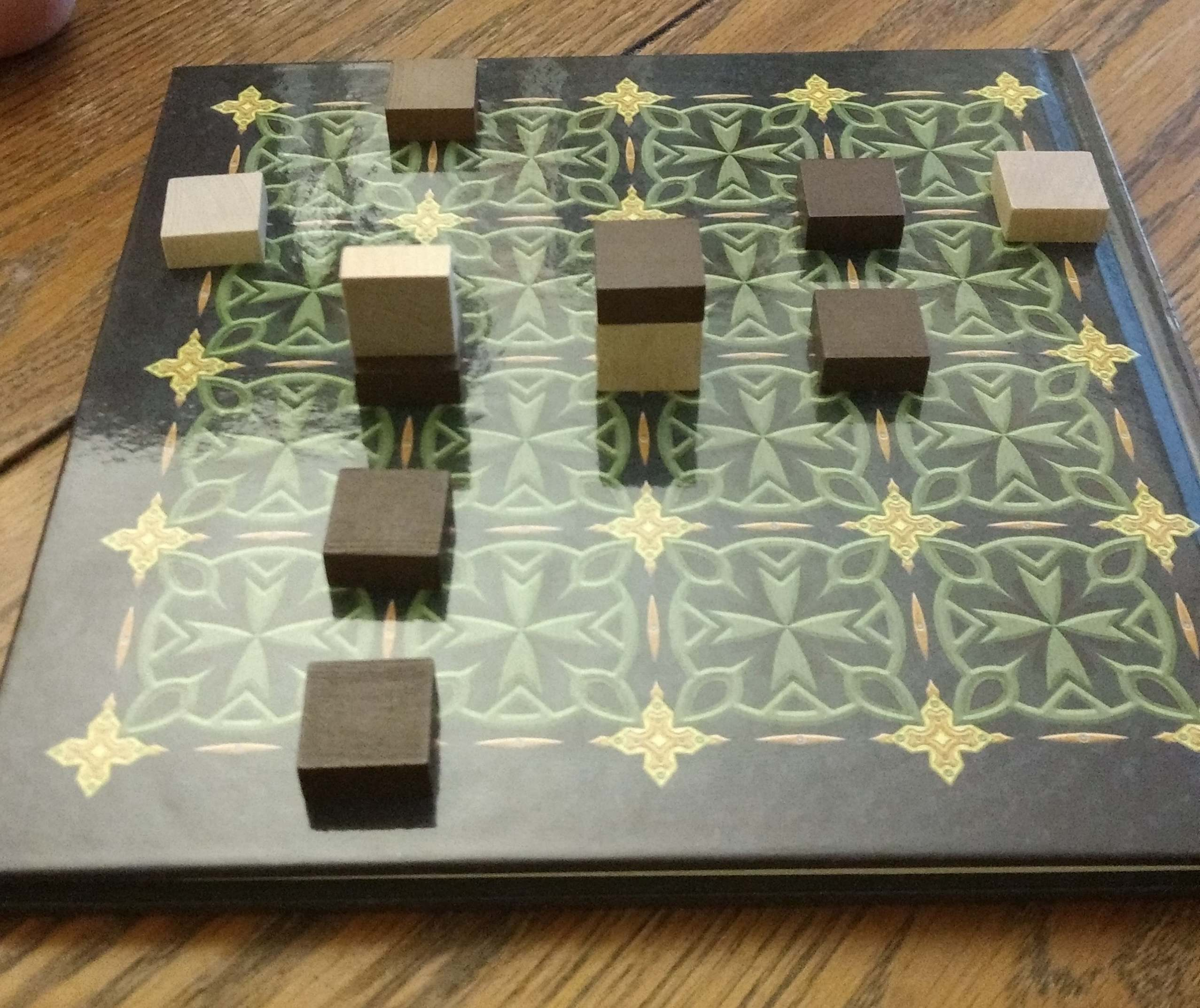 Tak being played with the Tavern Set on the back cover of the Tak Companion.